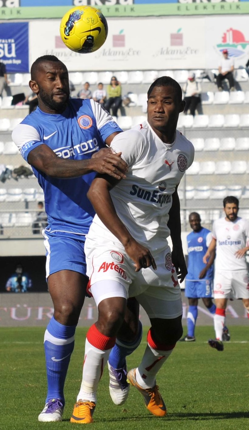 Kamil Zayatte with Ali Zitouni